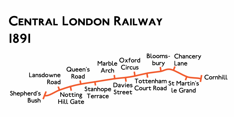 Geographic Map of the Central London Railway as planned in 1891.